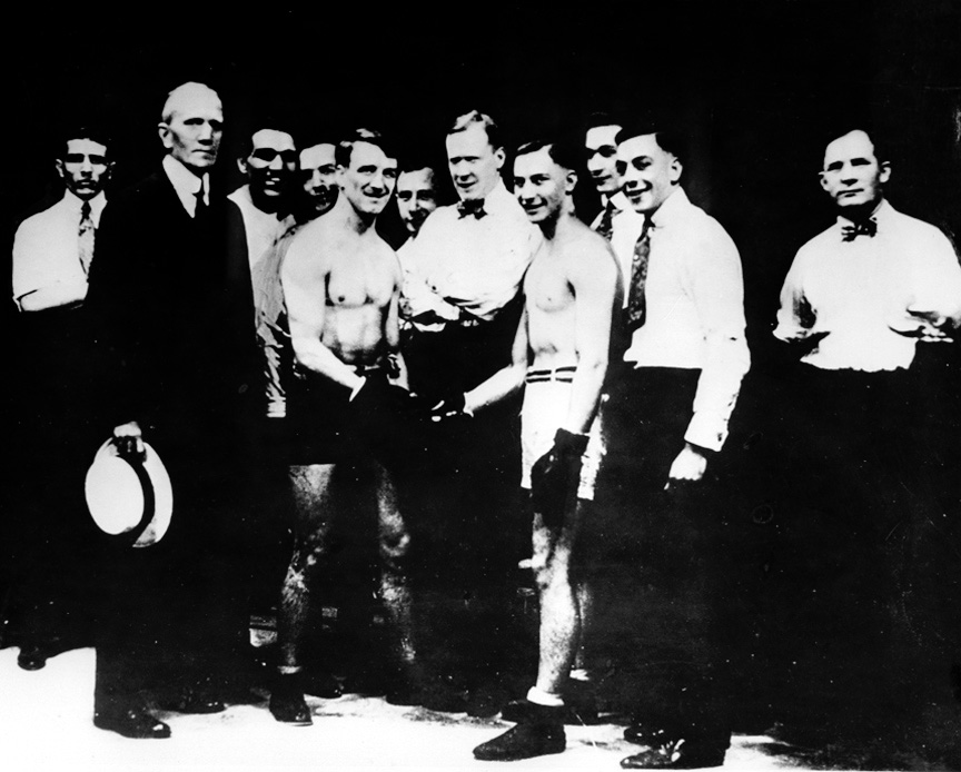 Jimmy Welsh vs Benny Leonard.